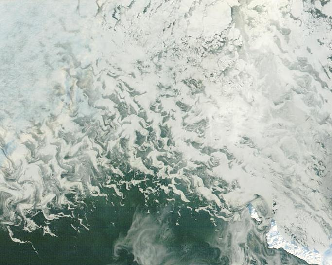 Excerpted from Modis Rapid Response Terra image for Dec 30, 2008 23:00 UTC Sea ice forming near St. Matthew Island in the Bering Sea.